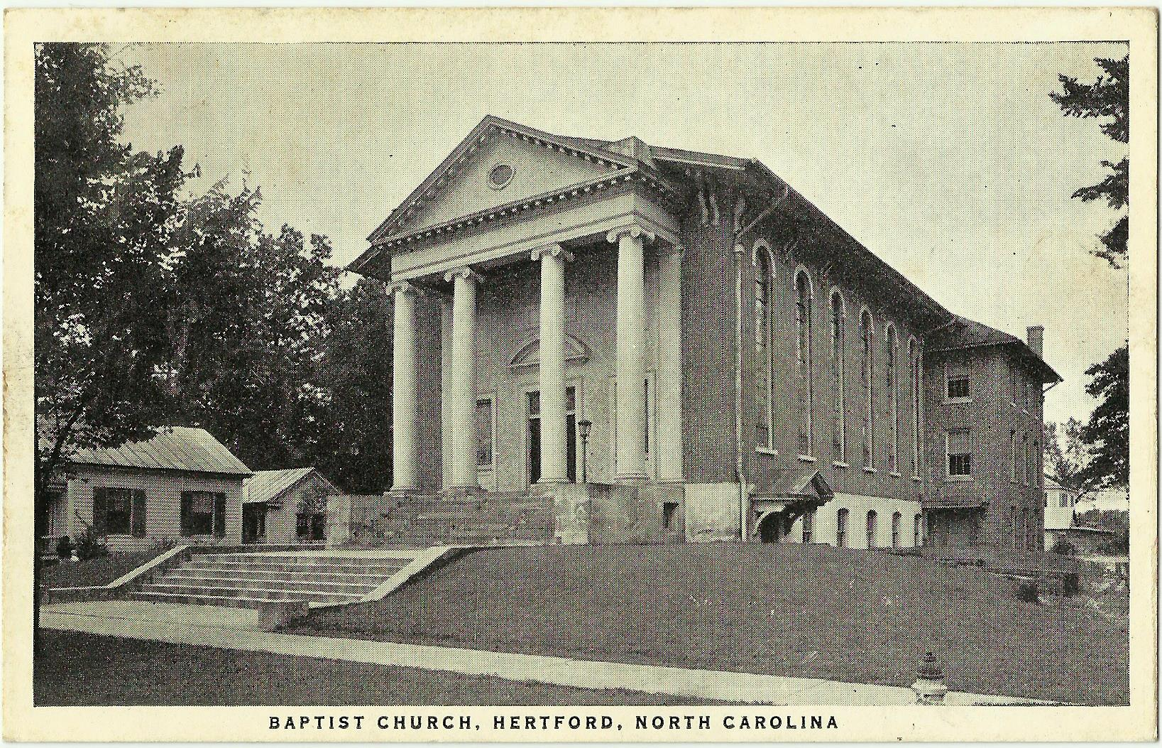 From PhC.184 Massengill Postcard Collection, August 2015 addition, State Archives of North Carolina, Raleigh, NC.